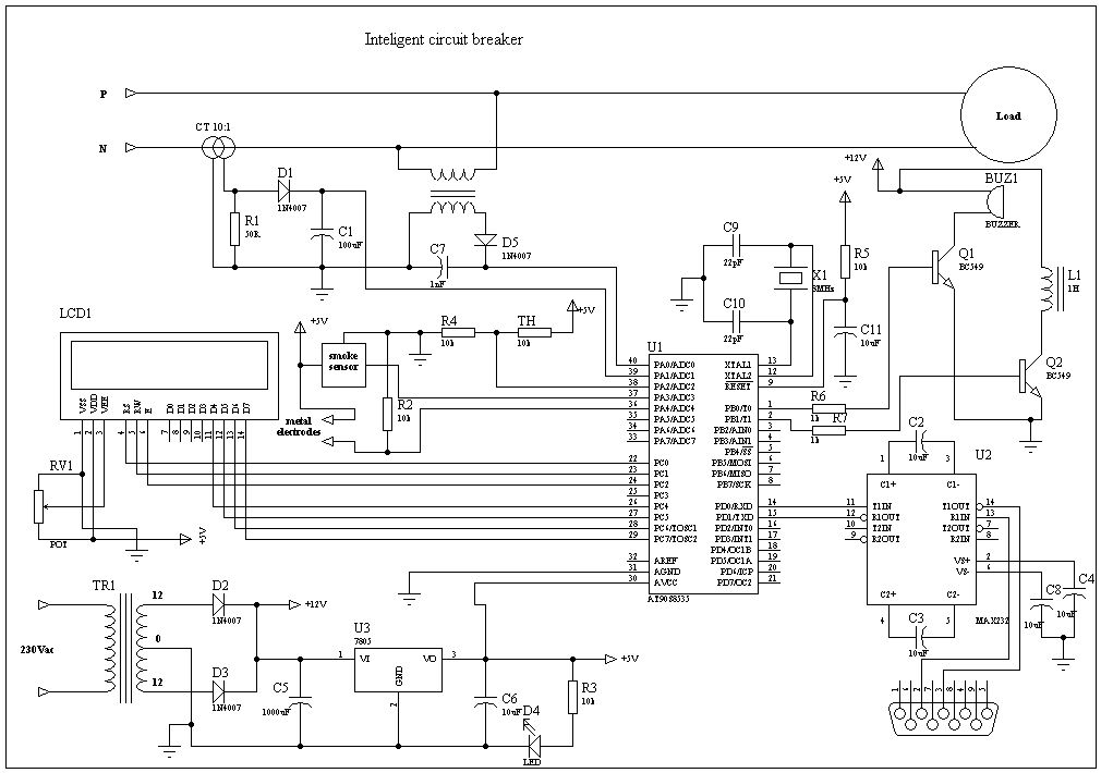 Future of circuit Braker: Engineers have long considered circuit protection a stable if somewhat unglamorous area. However, that stability is diminishing rapidly. New sophisticated devices reshape the way engineers apply circuit protection and open new possibilities for the savvy designer Electronic systems are shrinking and circuit-protection devices are no exception. To take up less space, circuit breakers may double as power-control relays. Programmability has also come to circuit breakers. Smartprotectors sport programmable trip values and overload time delays. More-sophisticated protectors measure and report voltage and current values, alert control systems about tripped conditions, and can be reset remotely. As global markets become more important, designers must consider how circuit-protection devices can meet both domestic and international standards.Embedded microprocessors now get built into a variety of products, and circuit-protection products are no exception with the arrival of intelligent devices. Many smart breakers include sensing circuits. These sensors feedback information to PLCs or other control units on such factors as circuit status, current flows, and other relevant data. Programmable technology using solid-state power control makes it possible to monitor and limit maximum current flow during short circuits. Embedded microcontrollers let engineers program both breaker trip points and speed profiles on the fly.Such features were unheard of with traditional circuit breakers. A small amount of processing power and the ability to communicate via standard industrial networks makes remote programmability a reality today.